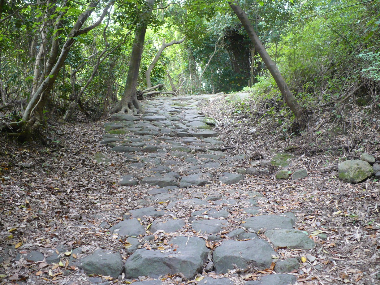 Shirakanezaka connecting Aira town and Kagoshima city. This slope was the main route until current national route No.10 was opened in the 19C